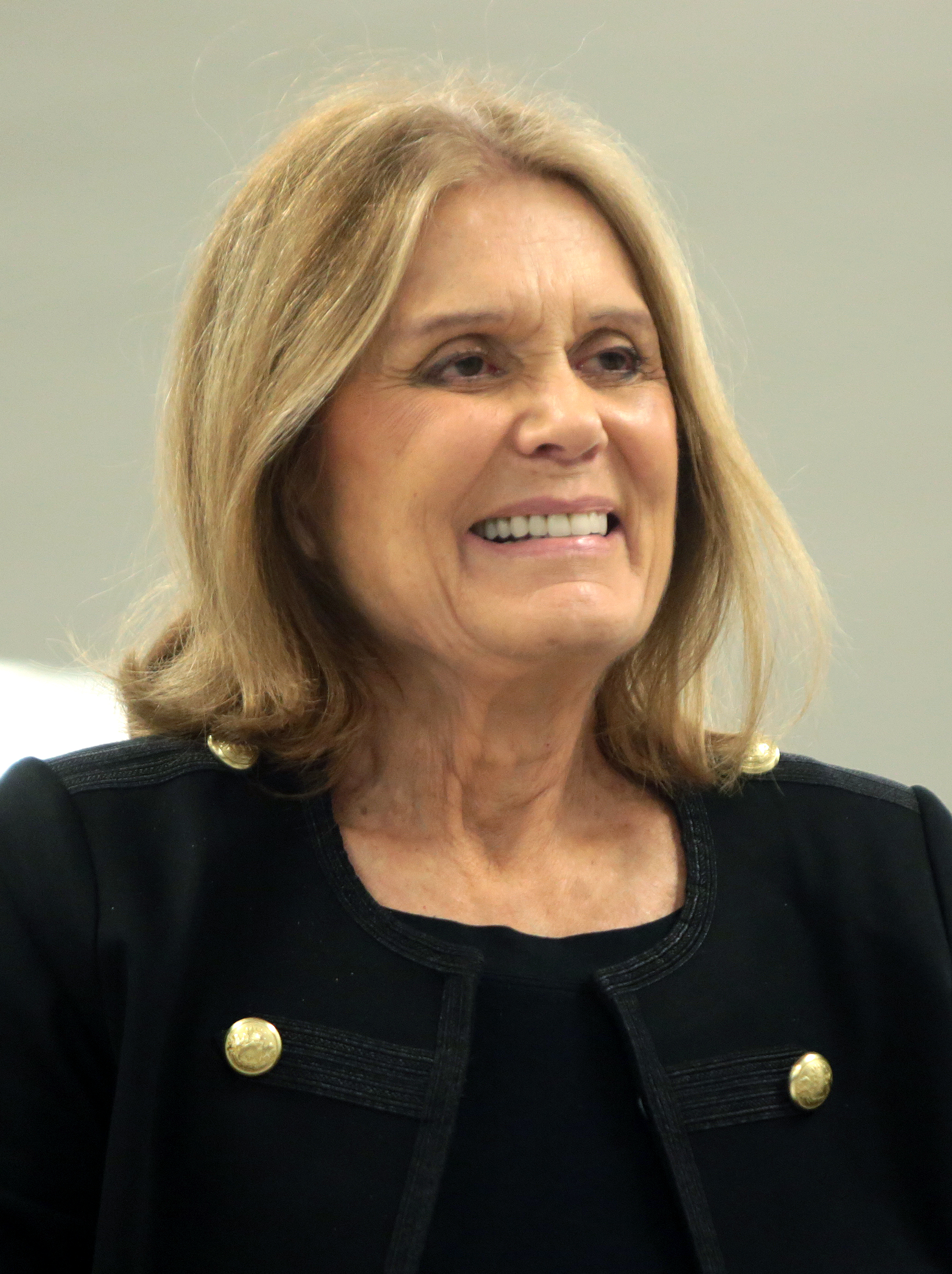 Gloria Steinem speaking with supporters at the Women Together Arizona Summit at Carpenters Local Union in Phoenix, Arizona.